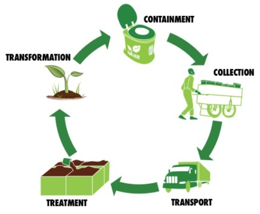 A diagram that explains how feces are recycled, Figure by SOIL. (Decomposed feces could be used as a cover material)